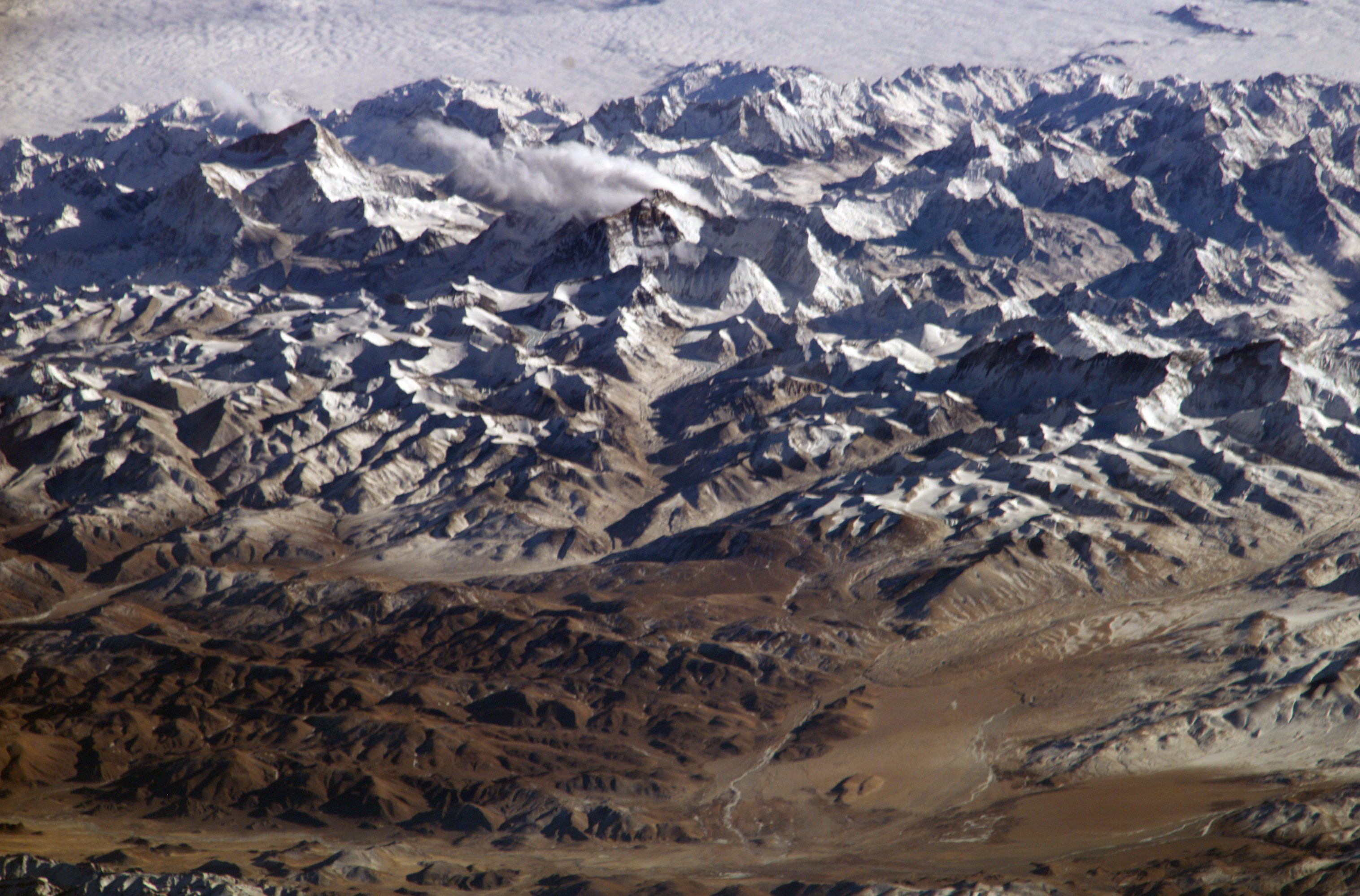 Himalaya from the International Space Station. In addition to looking heavenward, NASA helps the world see the Earth in ways no one else can. Astronauts on board the International Space Station recently took advantage of their unique vantage point to photograph the Himalayas, looking south from over the Tibetan Plateau. The perspective is illustrated by the summits of Makalu [left (8,462 metres; 27,765 feet)], Everest [middle (8,848 metres; 29,035 feet)] , Lhotse [middle (8,516 metres; 27,939 feet)] and Cho Oyu [right (8,201 metres; 26,906 feet)] -- at the heights typically flown by commercial aircraft.